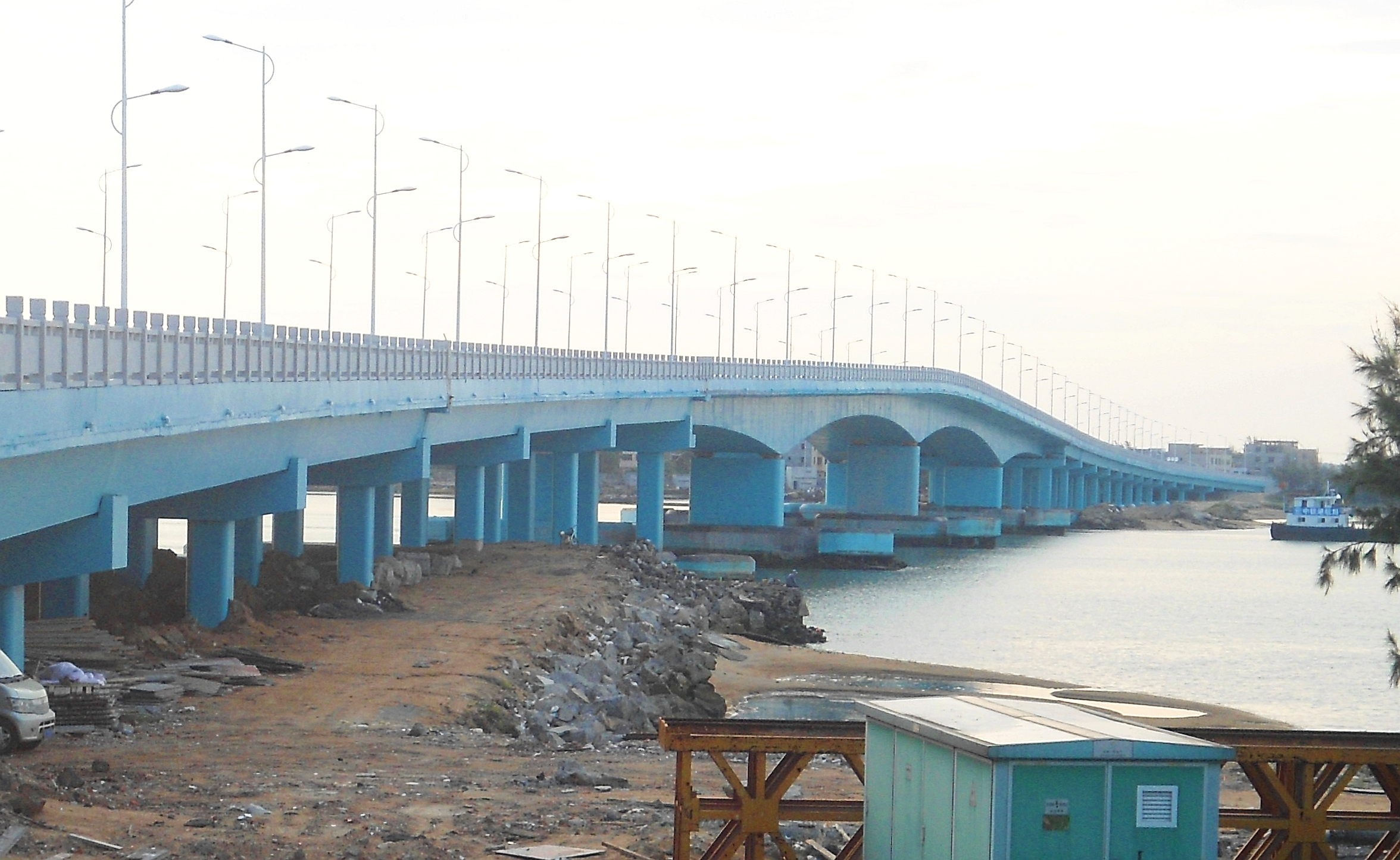 Haikou New East Bridge viewed from the southwest, Xinbu Island, Haikou, Hainan, China